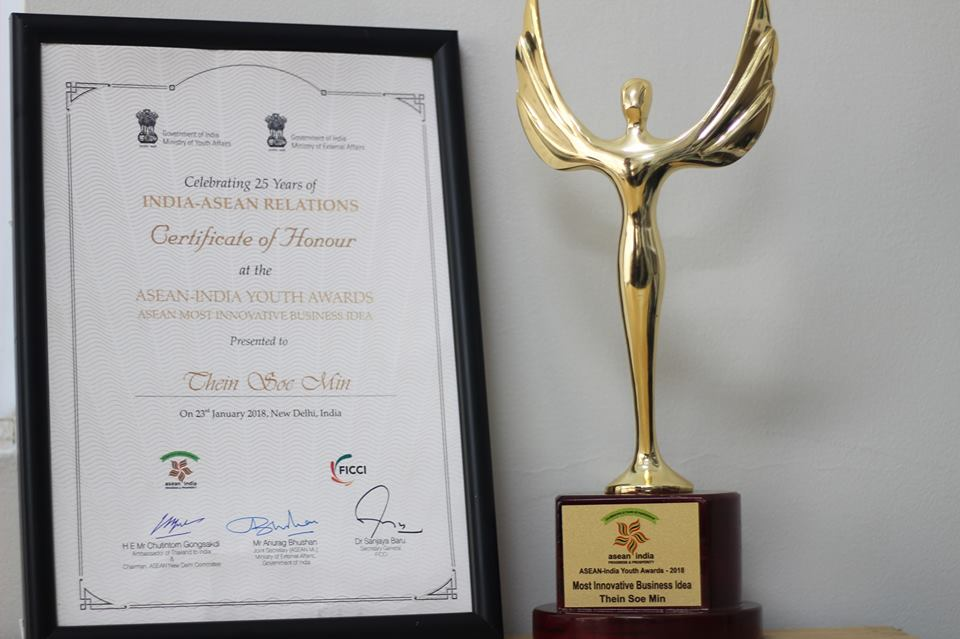 မြန်မာဘာသာ: Most Innovative Business Idea by Thein Soe Min, Founder of Greenovator